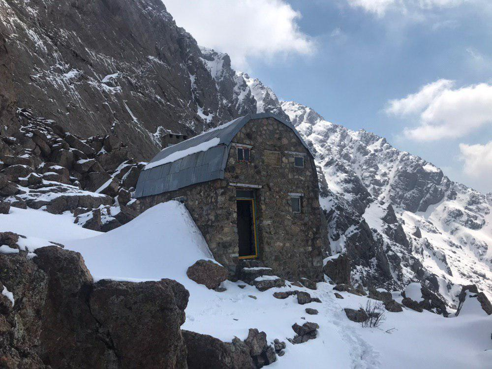 جان‌پناه شروین یا پناهگاه شروین، یکی از پناهگاه‌های کوهنوردی در شمال تهران است که در دامنه توچال و در ارتفاع ۲۴۵۰ متری قرار گرفته‌است.